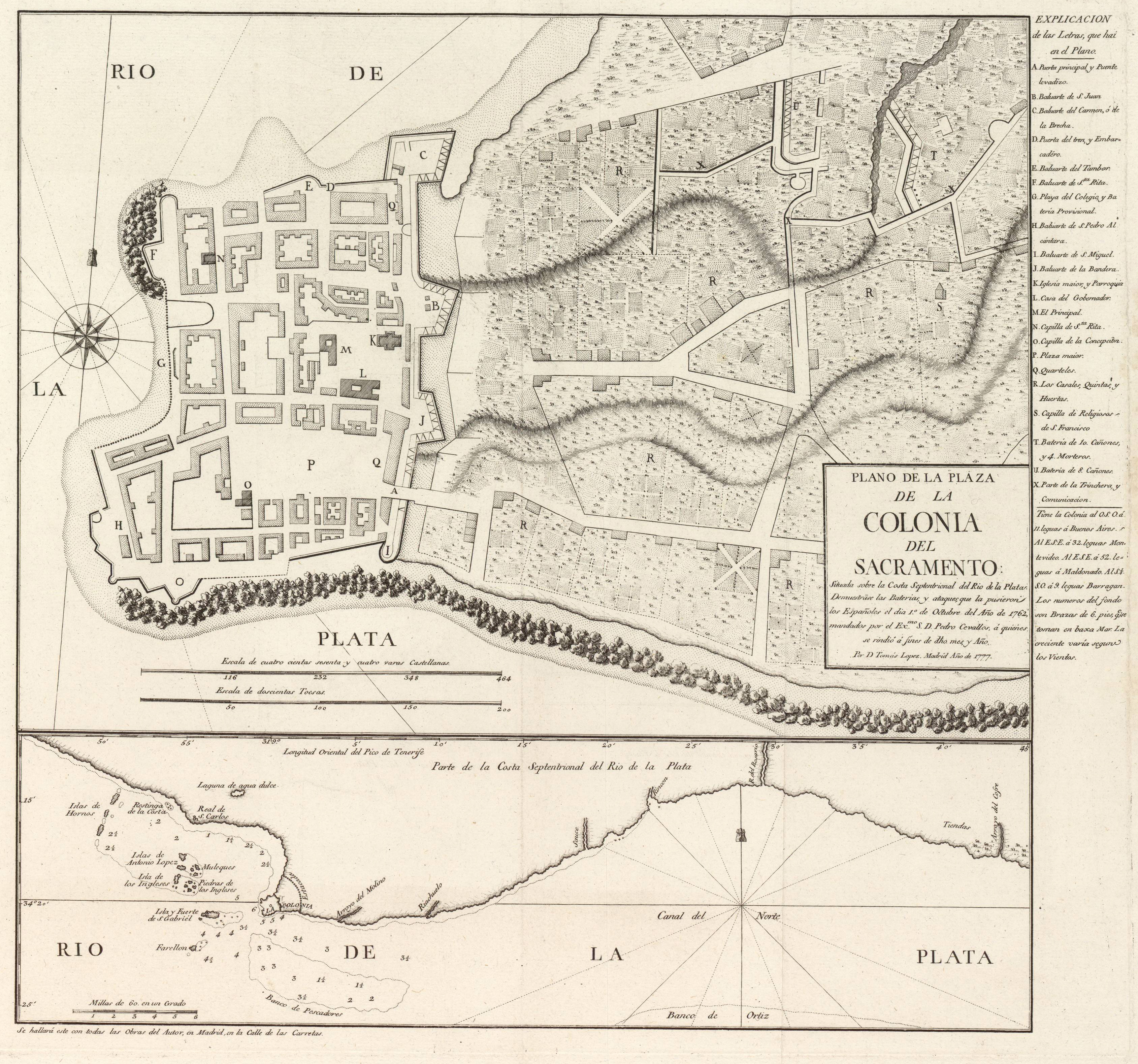 Map of Colonia del Sacramento done by Tomás López in 1777